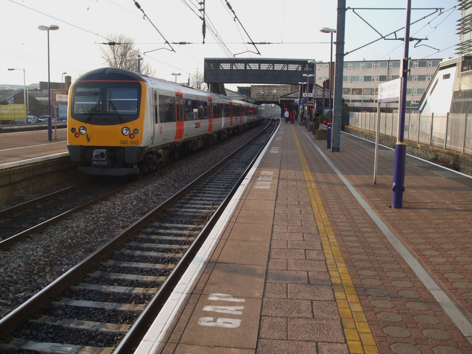 Class 360 unit 360203 calls at Hayes & Harlington station with a Heathrow Connect service bound for the airport